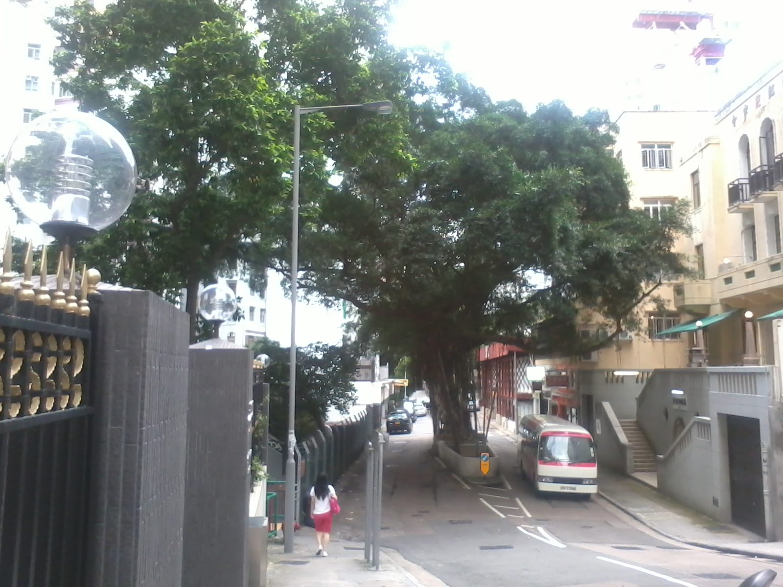 大坑 金龍道, Banyan trees in Dragon Road, Tai Hang, Hong Kong